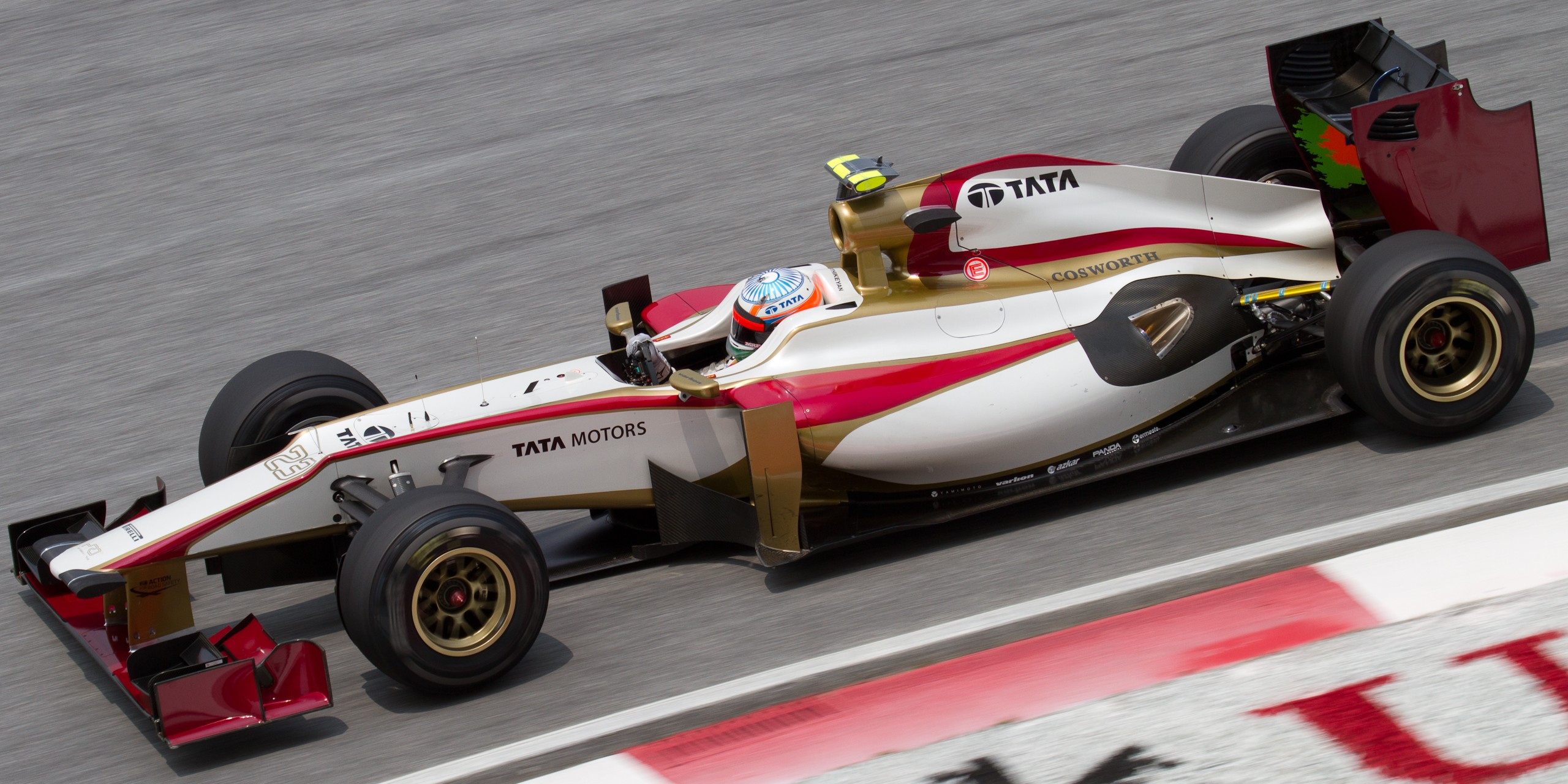 Formula One 2012 Rd.2 Malaysian GP: Narain Karthikeyan (HRT) during the second practice session on Friday.